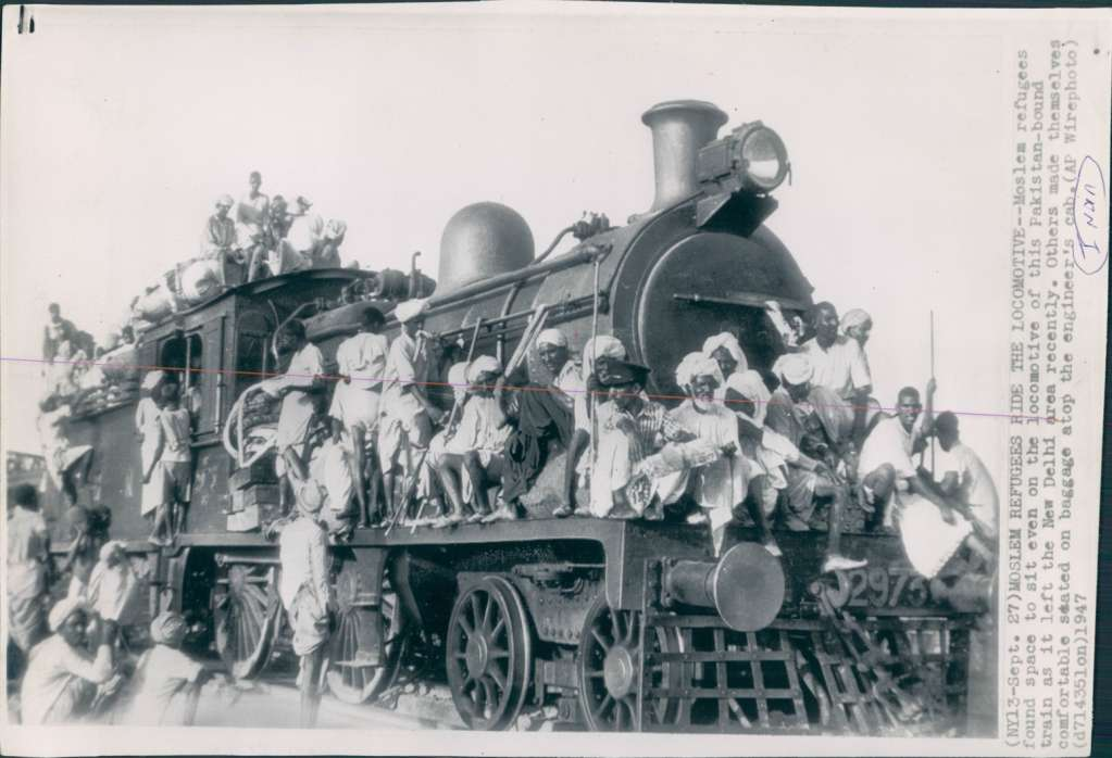 More Chicago Sun-Times photos: Refugees en route to Pakistan; and *refugees en route to India*